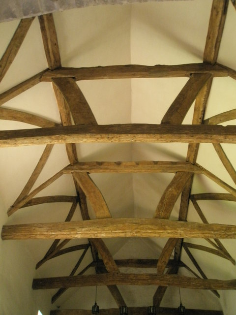 Ceiling at St Michael, Onibury